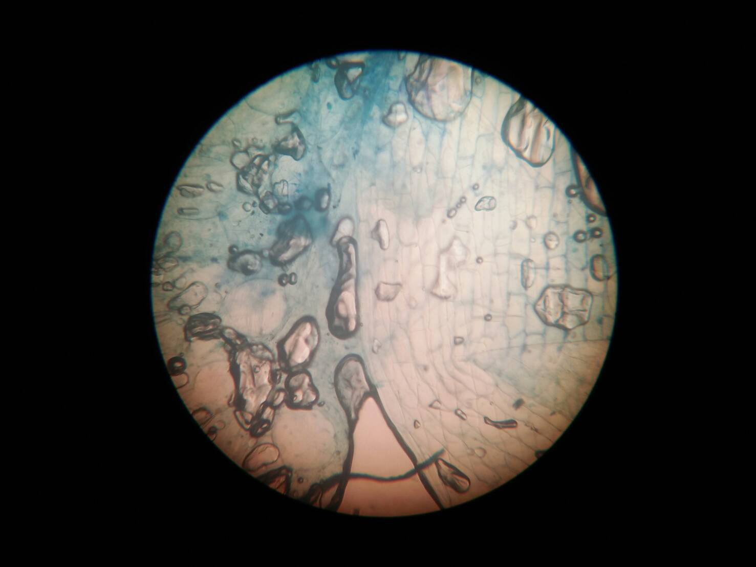 The morphology of the onion is taken through a light microscope with a magnification of 10x objective lens.